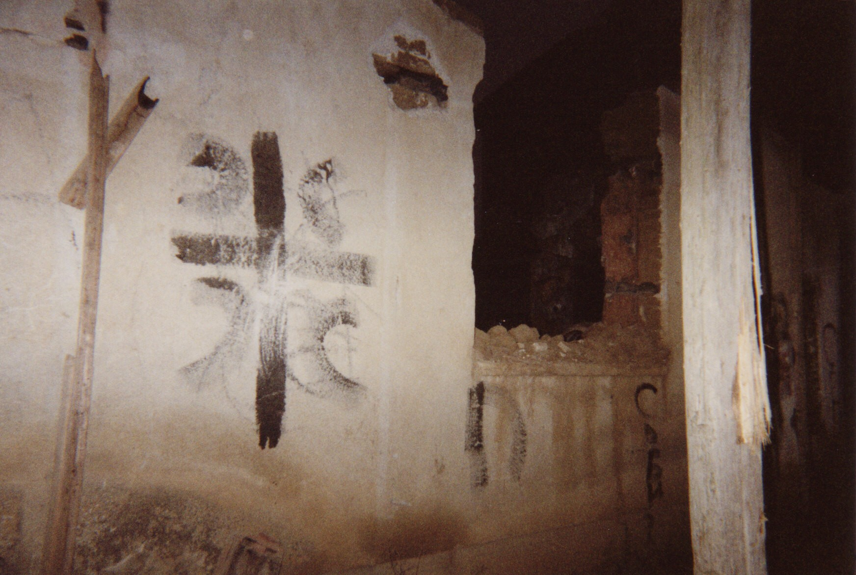 A symbol to Yugoslavian troops letting them know the building has been "cleared".